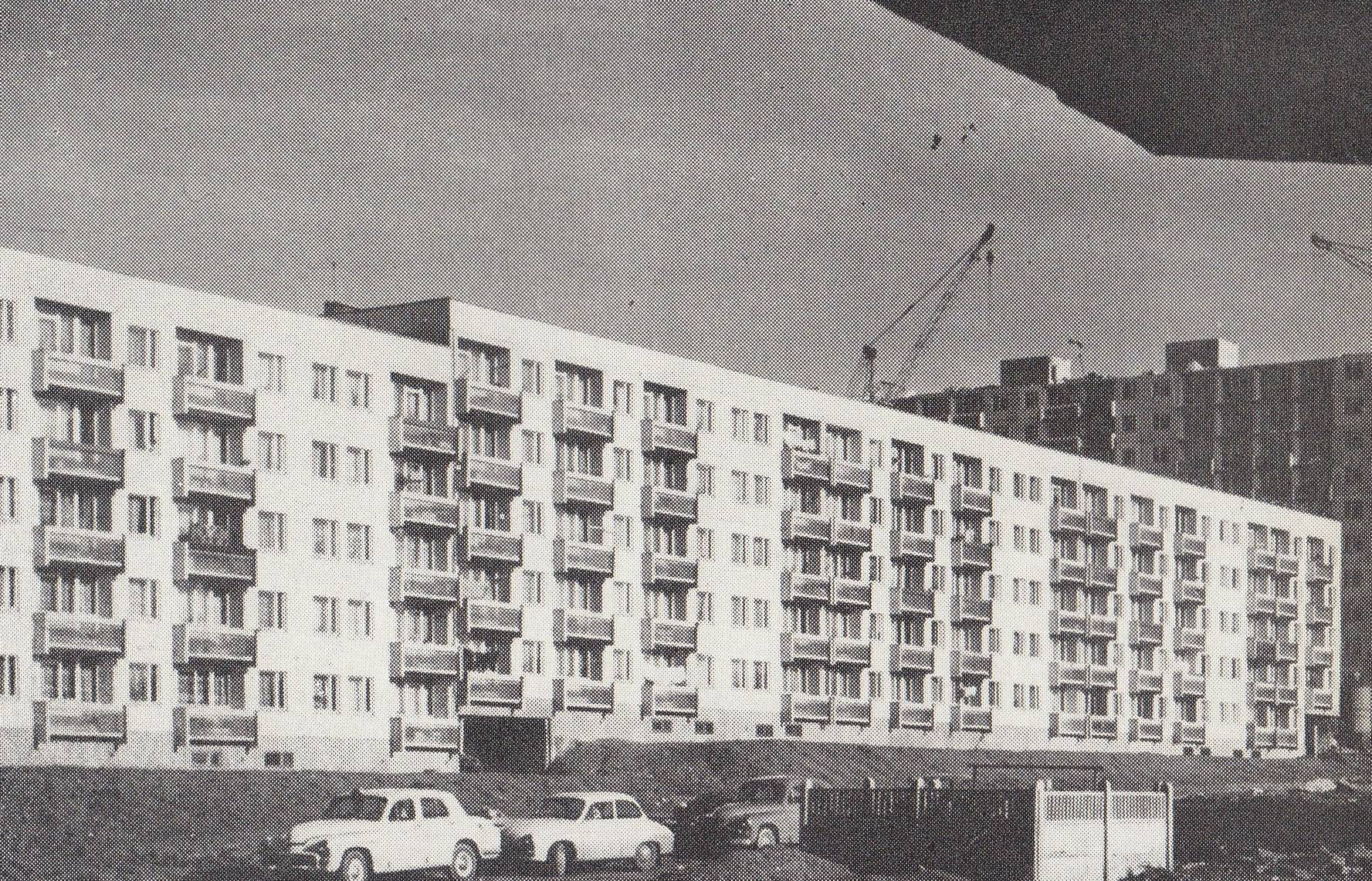 Ustronie Neighbourhood in Radom